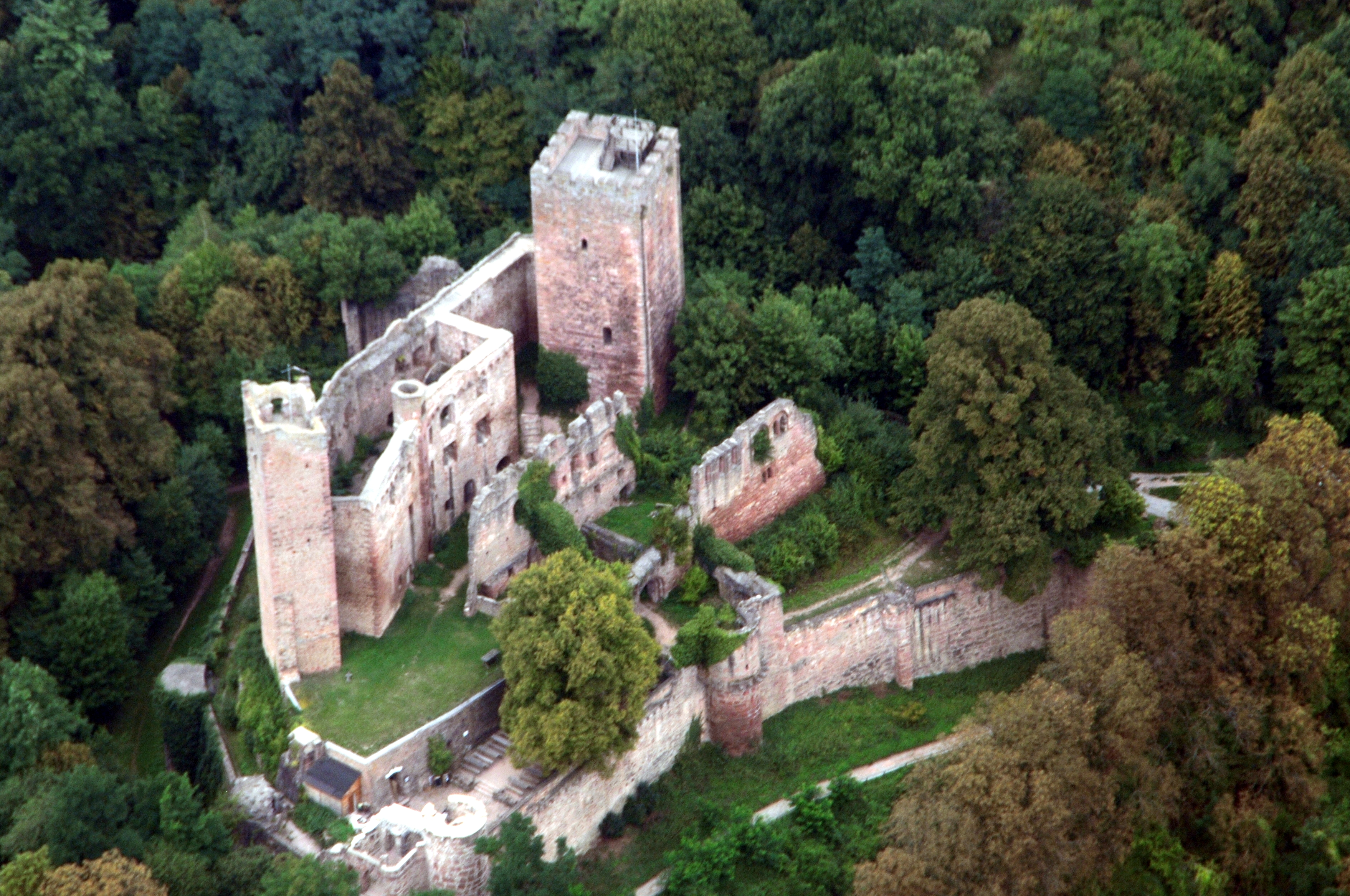 Henneburg, Stadtprozelten, Bavaria, Germany, aerial photograph